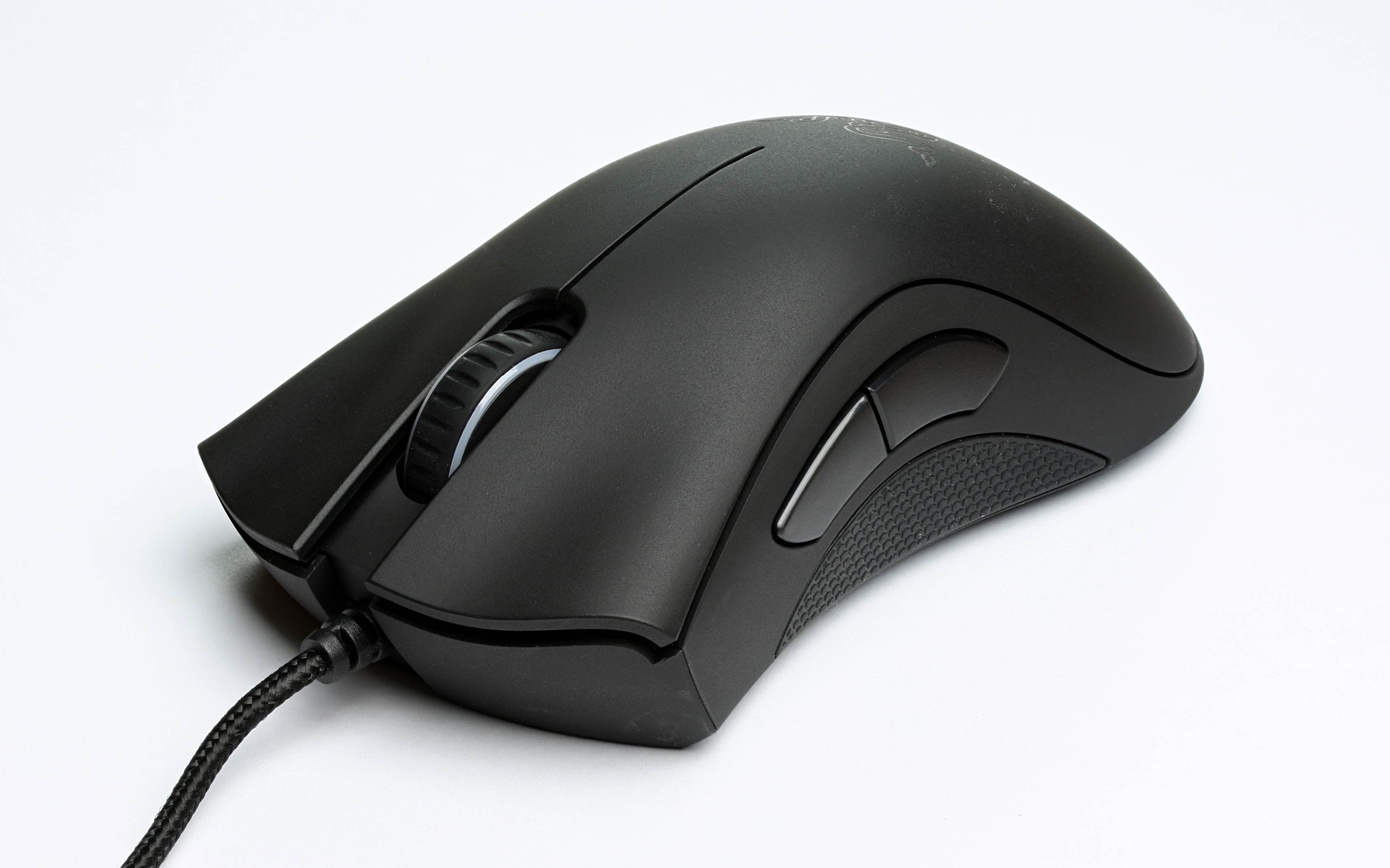 A DeathAdder 2013 Edition mouse by Razer.